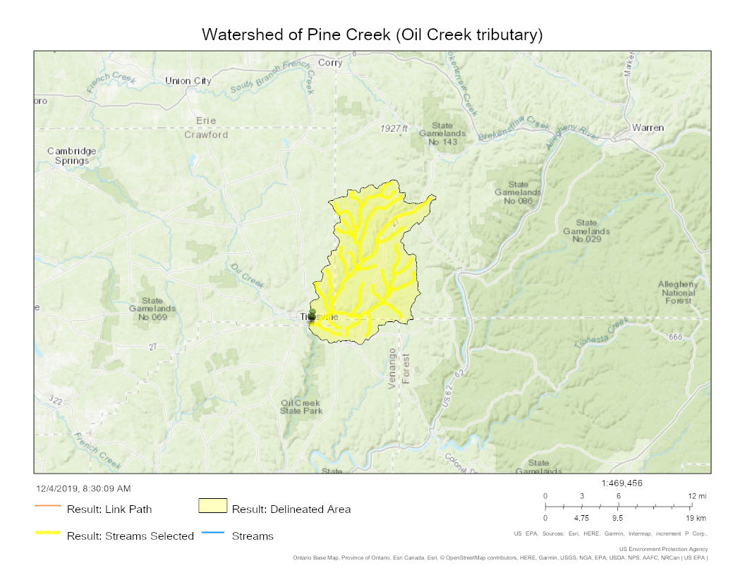 Map of the watershed of Pine Creek (Oil Creek tributary) in Warren and Crawford Counties, Pennsylvania